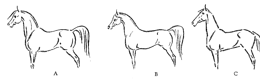 A. Koheilan type. B. Saklawi type. C. Muniqi type.